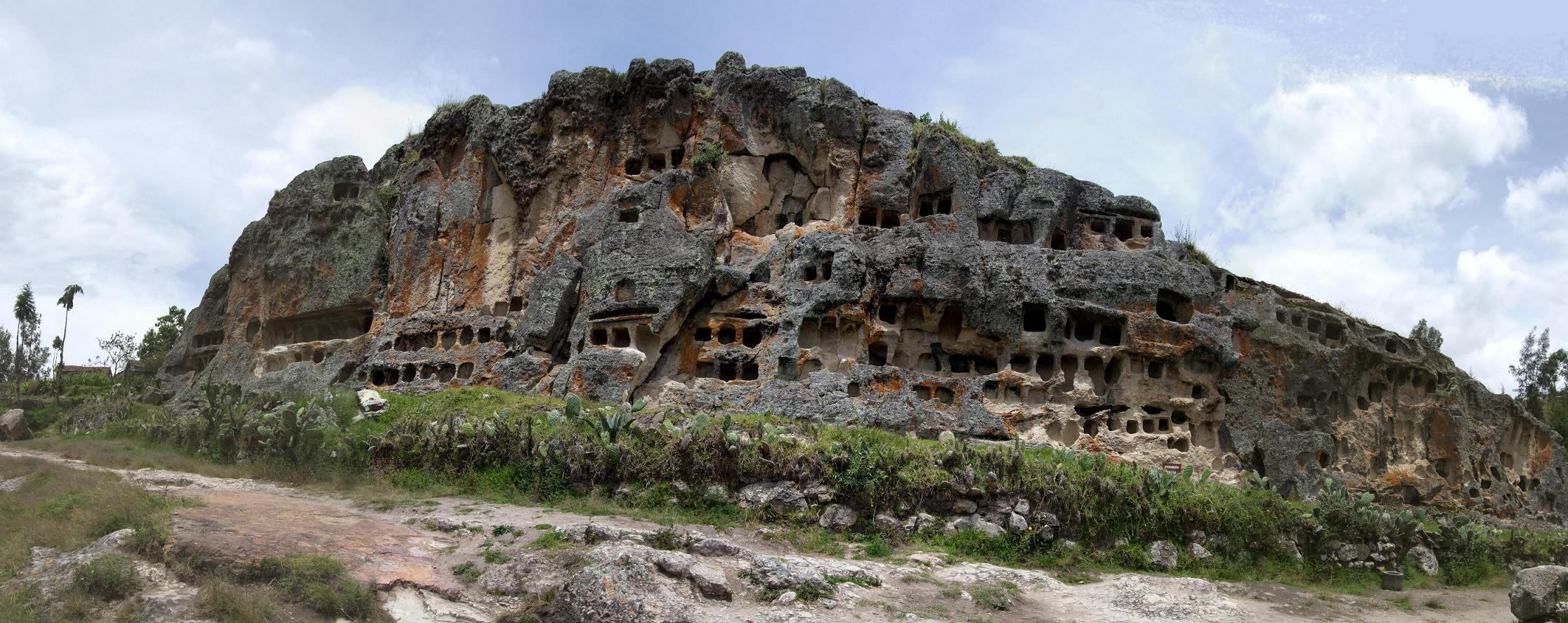 Ventanillas of Otuzco